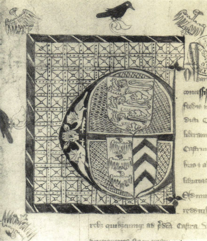 The initial from the charter granting the earldom of Cornwall to Piers Gaveston on 6 August 1307. The top coat of arms is that of the king of England, Edward II, while the lower one is Gaveston's arms impaled with those of the de Clare family. At the top of the initial is a Cornish Chough. The impalement is not done consistently; while the de Clare arms are impaled, the six Gaveston eagles have been reduced to three. This resembles a dimidiation rather than an impalement. Also of note is the fact that the Gaveston and de Clare arms are impaled, even though the marriage between Gaveston and Margaret de Clare did not take place until 1 November. This makes it likely that the two were already engaged.